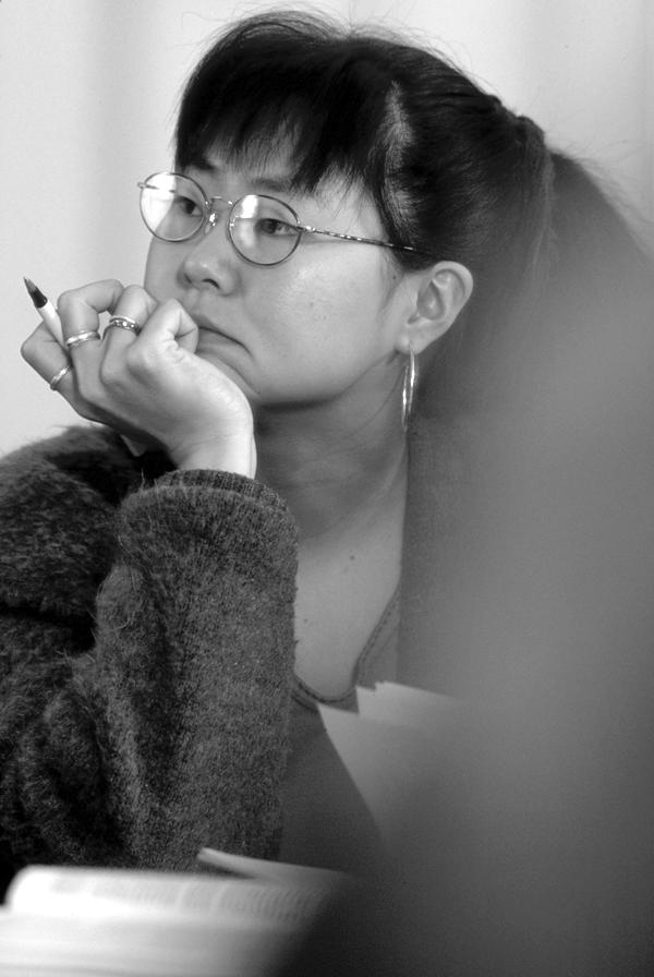 Chicago performer, children's TV show host, parayoga instructor, and A Squared Theatre Workshop founder Mia Park, engaging in a class discussion at Shimer College in the mid-1990s. Part of a photo shoot taken during the 1995-1996 academic year for use in the school catalog.